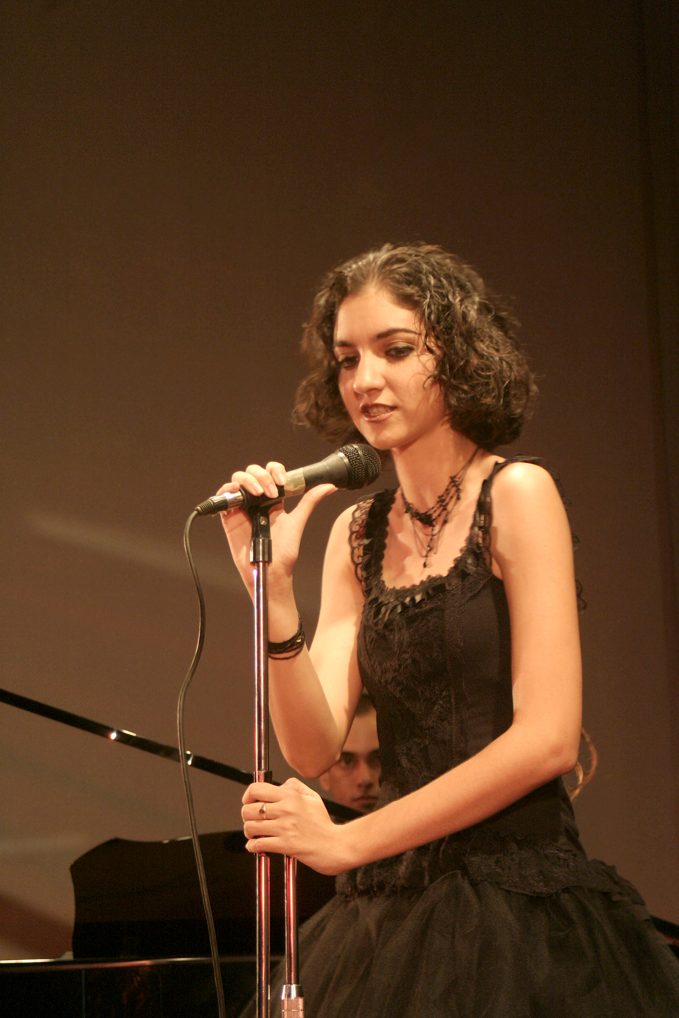 Adela Rivas Cruz during a Quidam Pilgrim performance, 2008